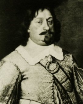 Swedish soldier and politician Axel Lillie (1603-1662)